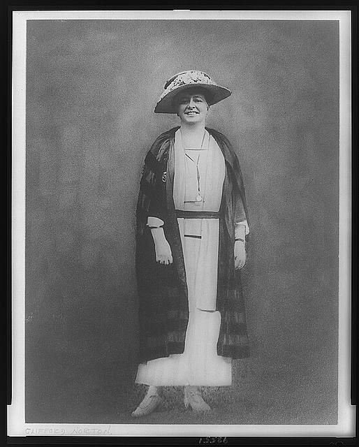 Title: Maud Wood Park, full-length portrait, standing, facing front Abstract/medium: 1 photographic print.